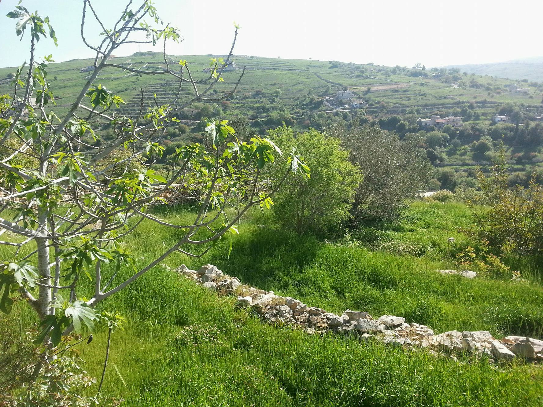 nature view